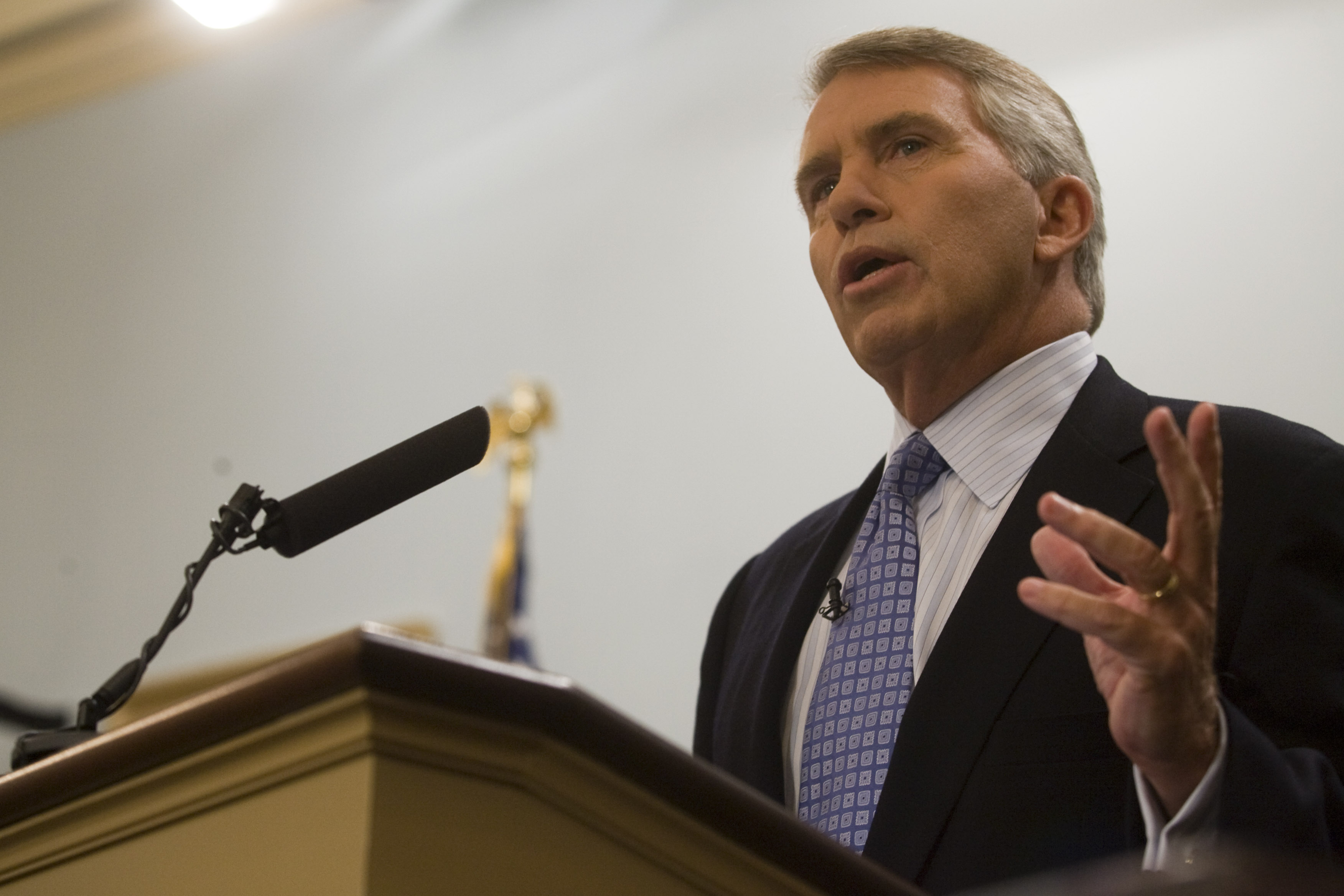 Jack Ford speaks at the Miller Center Forum, October 1, 2011.